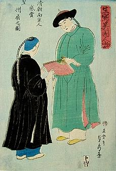 Two Chinese men in Yokohama appreciating a Japanese fan